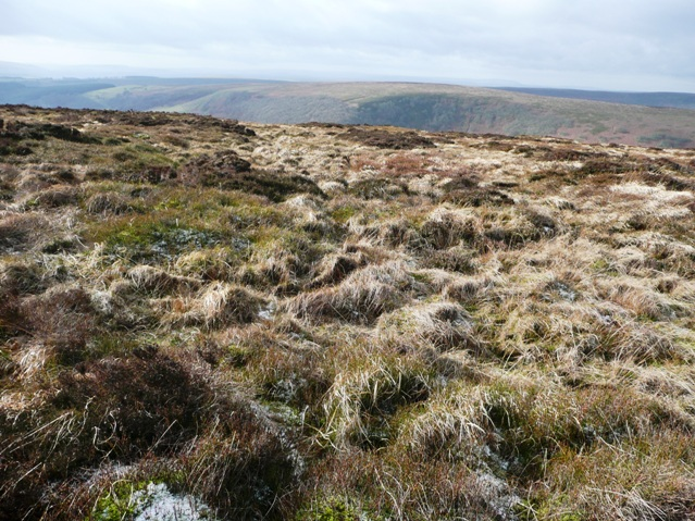 On Mynydd Coety More featureless moorland, looking west towards Cwm Tyleri.